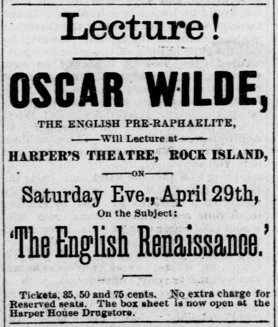 Oscar Wilde lecture at Harper's Theatre, Rock Island, Ill., 29 April 1882